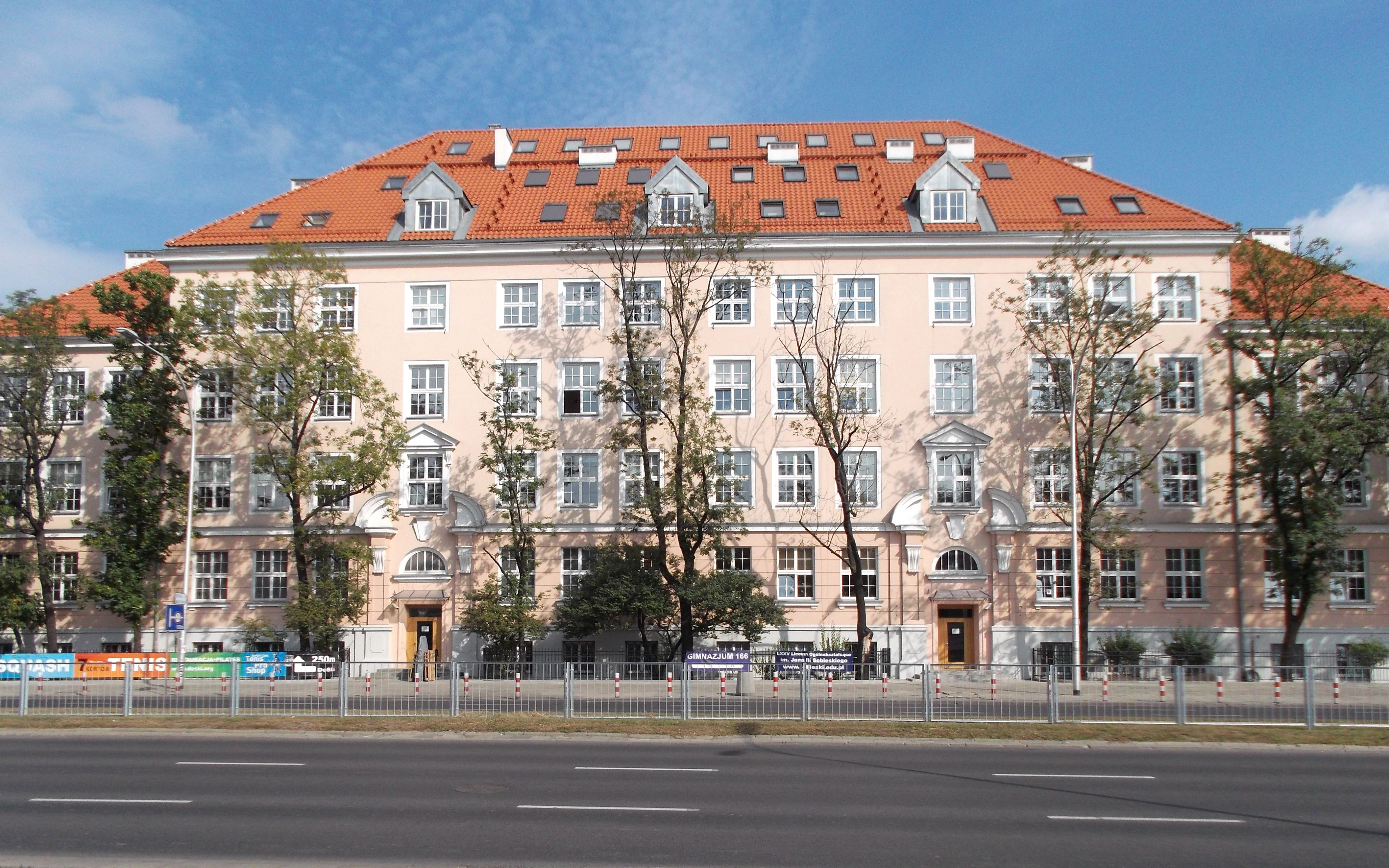 Building, 128 Czerniakowska Street in Warsaw (Poland)